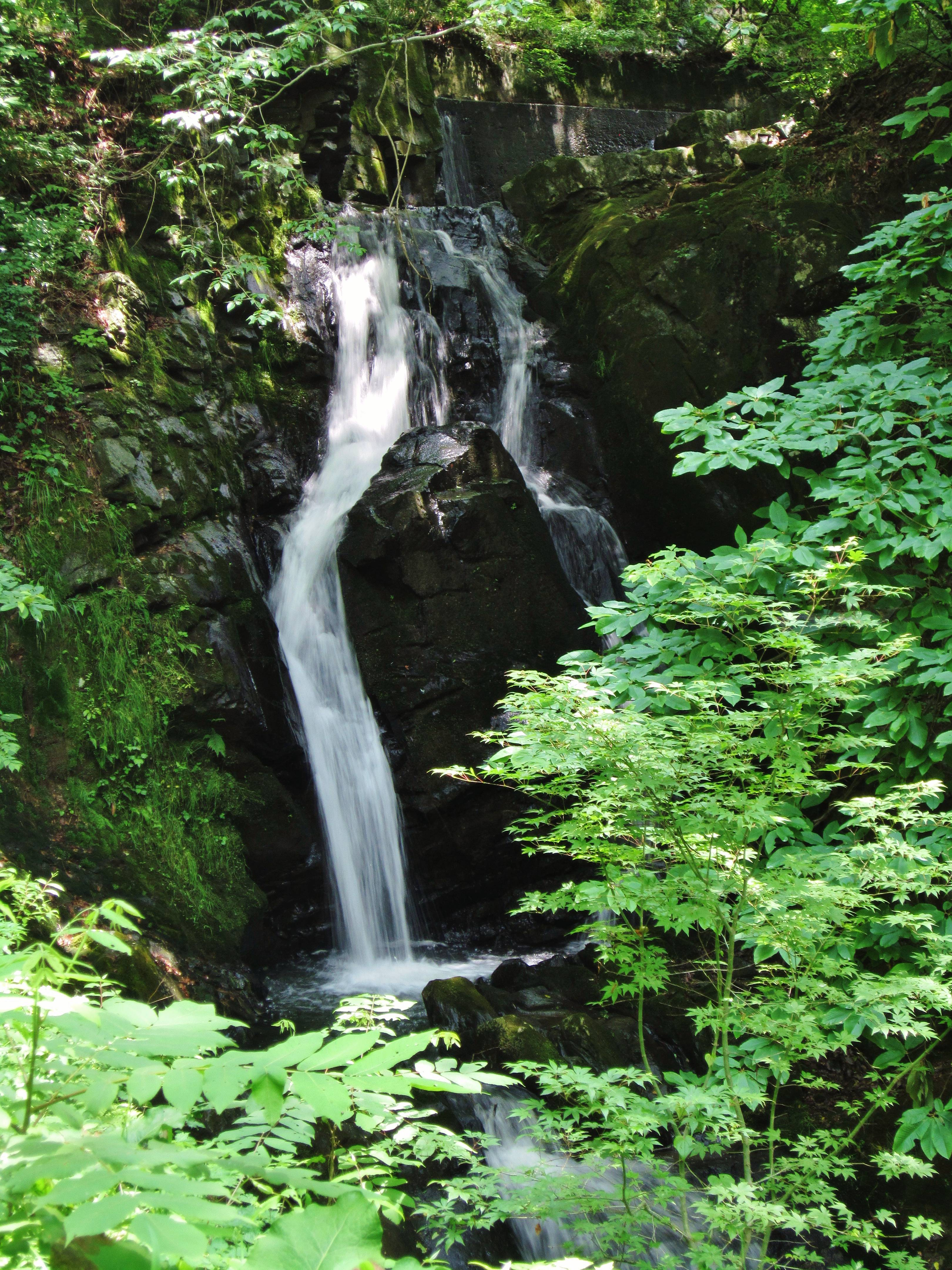 Bessho River Otaki Waterfall.